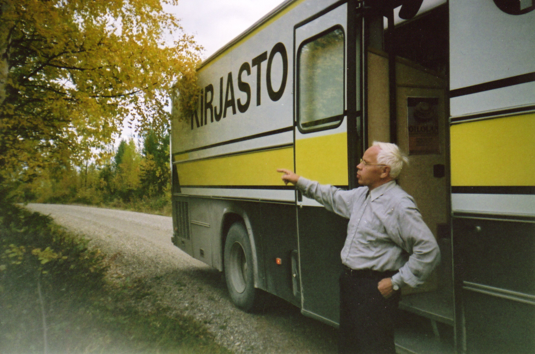 Pentti Heikkinen, one of the drivers of Suomussalmi's Library Track, Finland.